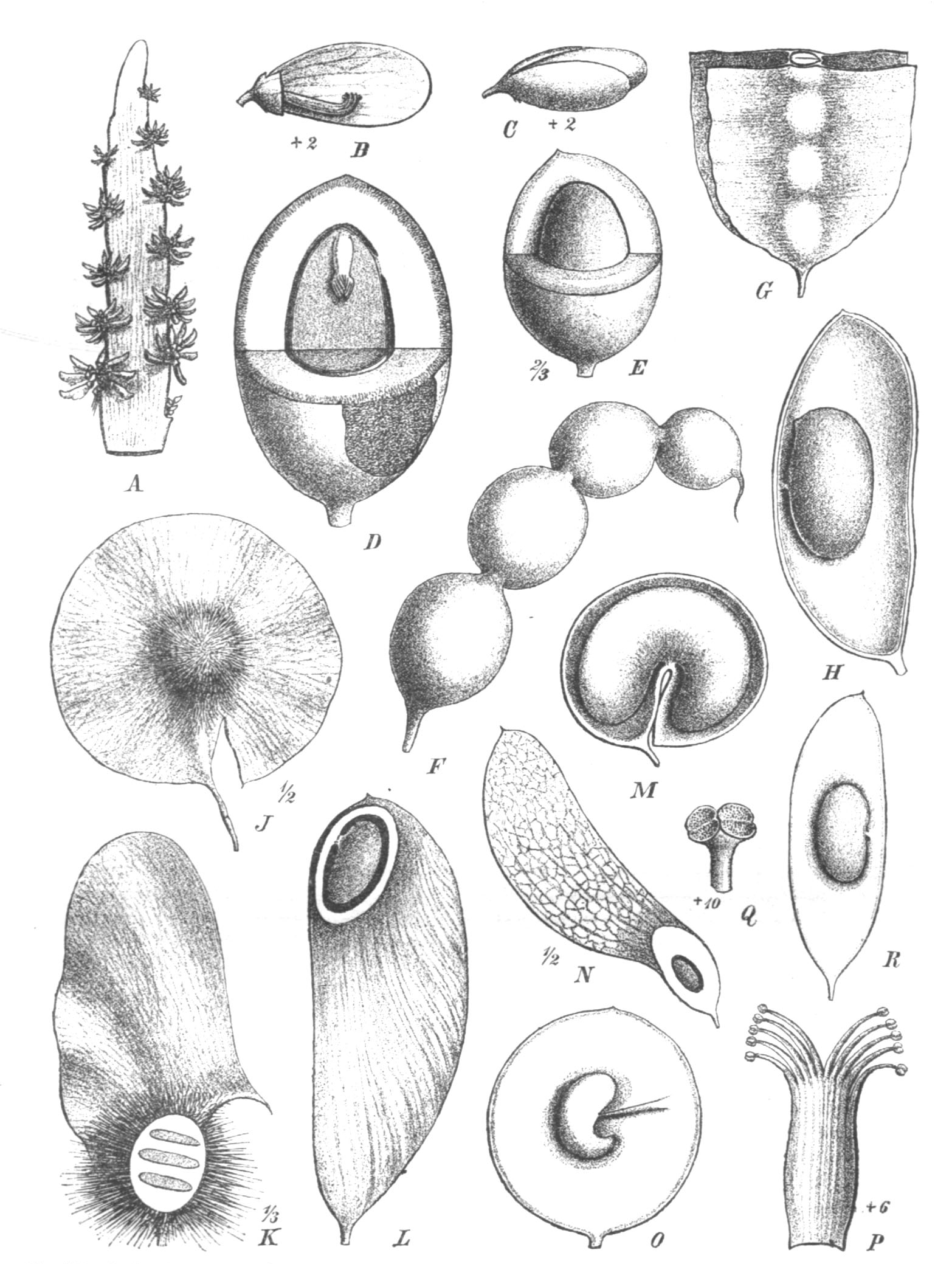 Illustration from book